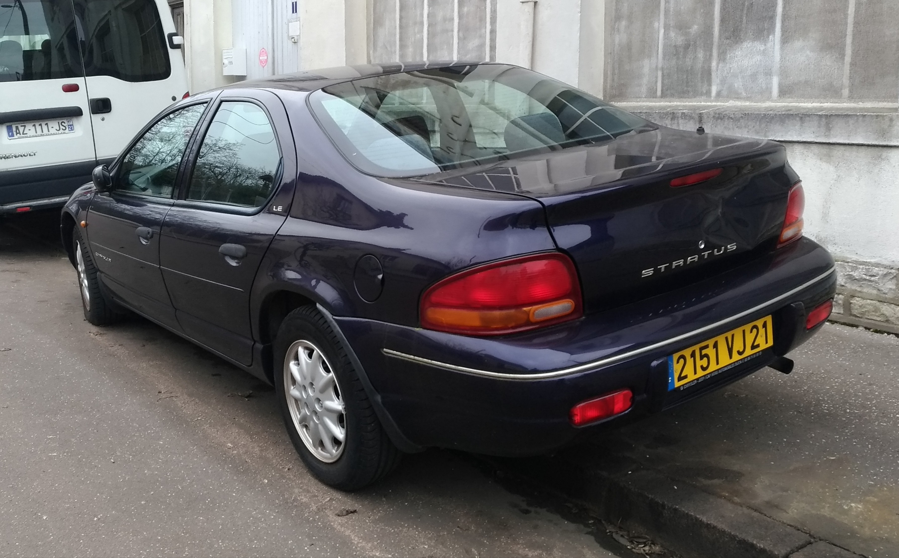 1998 Chrysler Stratus (2.0 133 hp) at Dijon